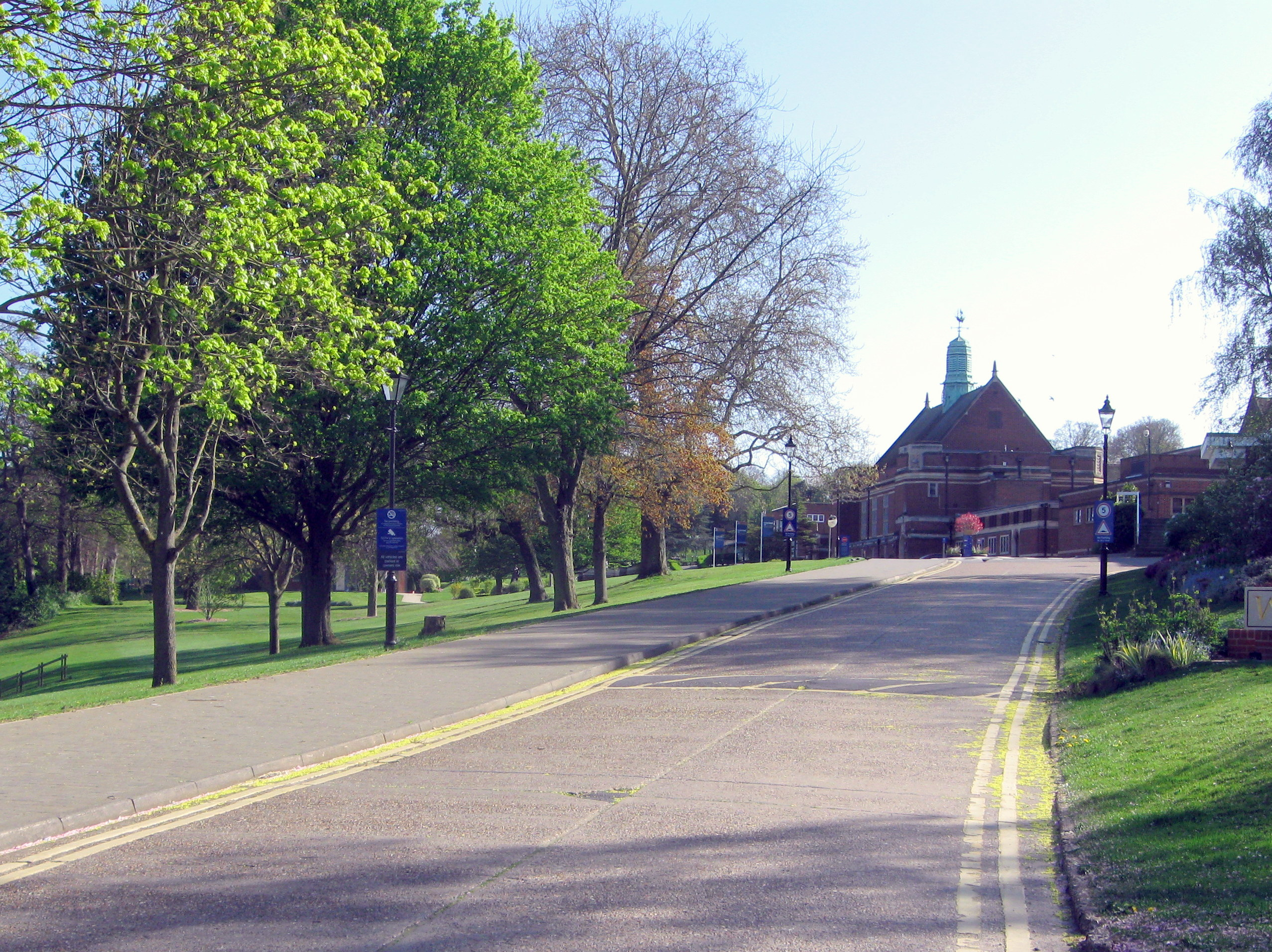 View of the main buildings of Whitgift School, South Croydon, from near the main entrance, April 2020